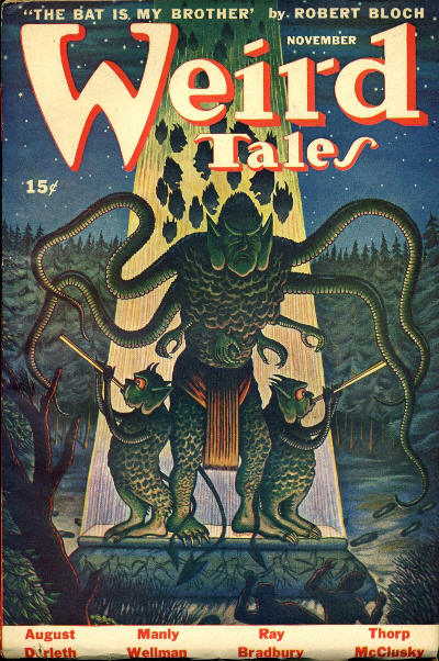 Cover of the pulp magazine Weird Tales (November 1944, vol. 38, no. 2). Cover art by Matt Fox.